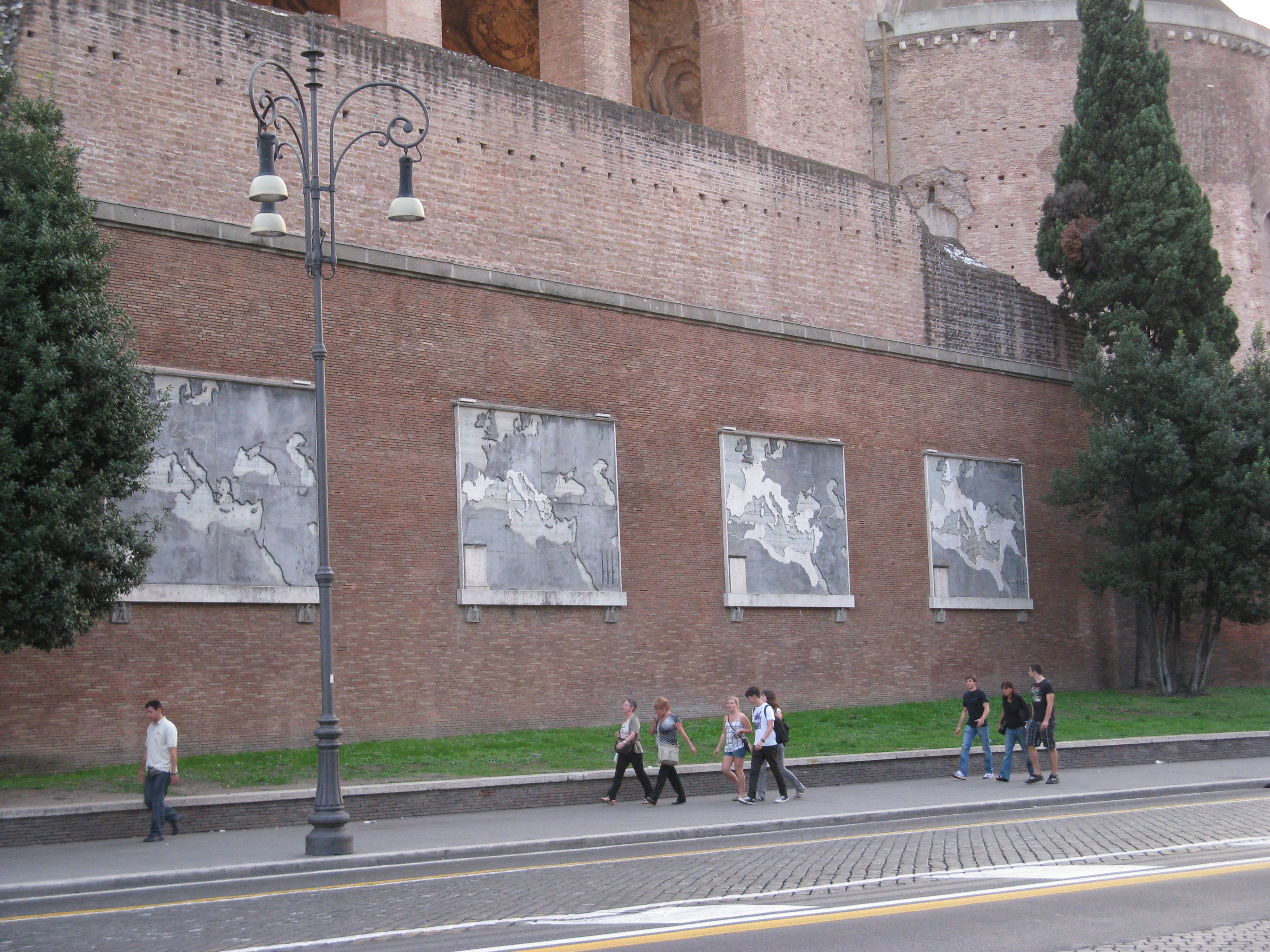 Maps of the Roman Empire in Rome.